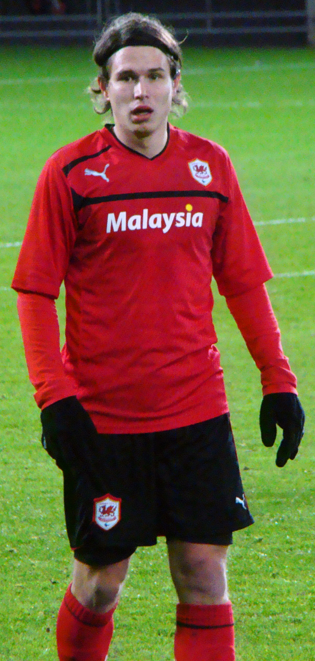 14/01/13 Cardiff DVP v Barnet, Cardiff City Stadium, Cardiff, Wales